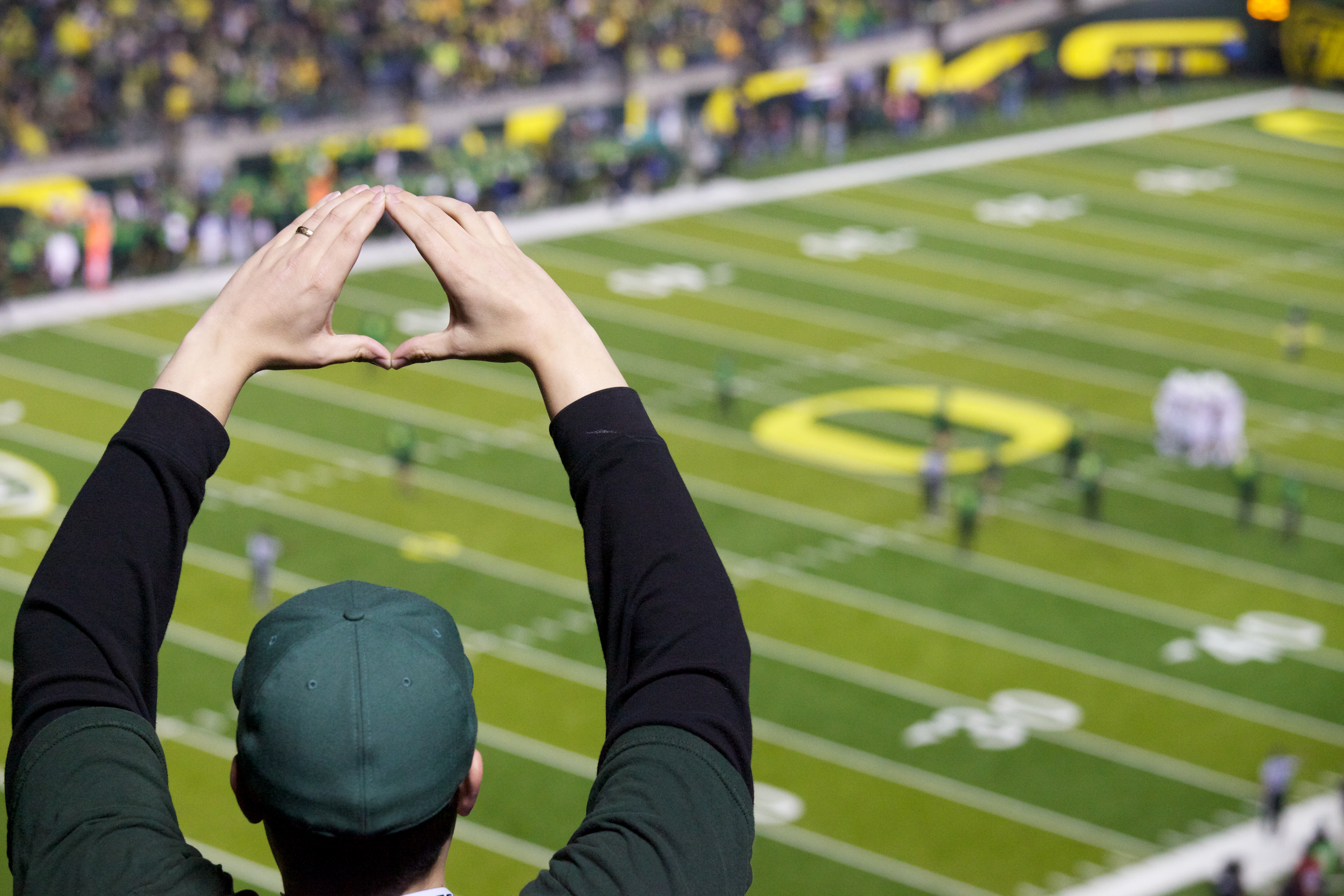 A fan of the Oregon Ducks displays the "O" gesture